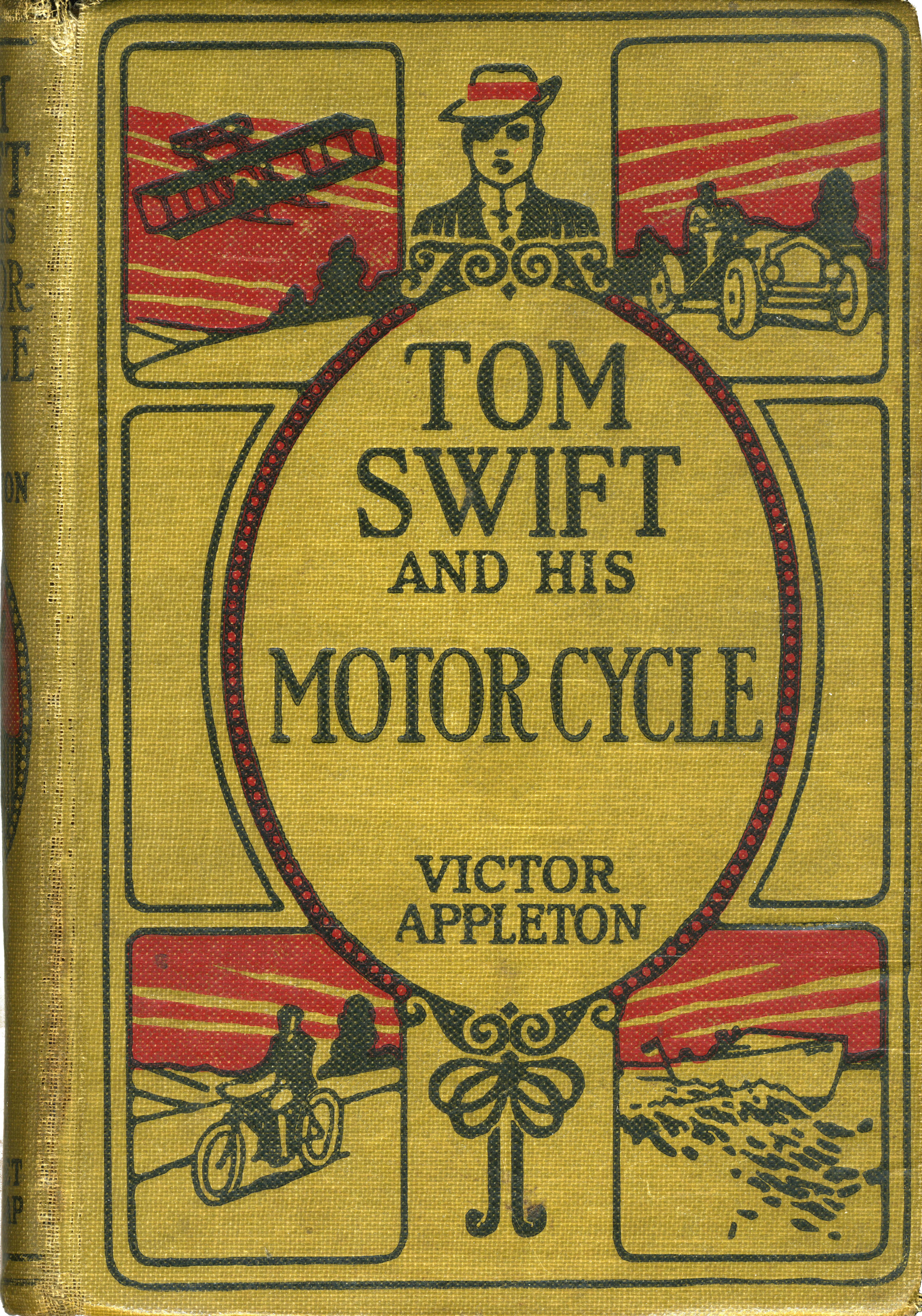 Scan of the cover of the original 1910 publication of Tom Swift and His Motorcycle, part of the Tom Swift series